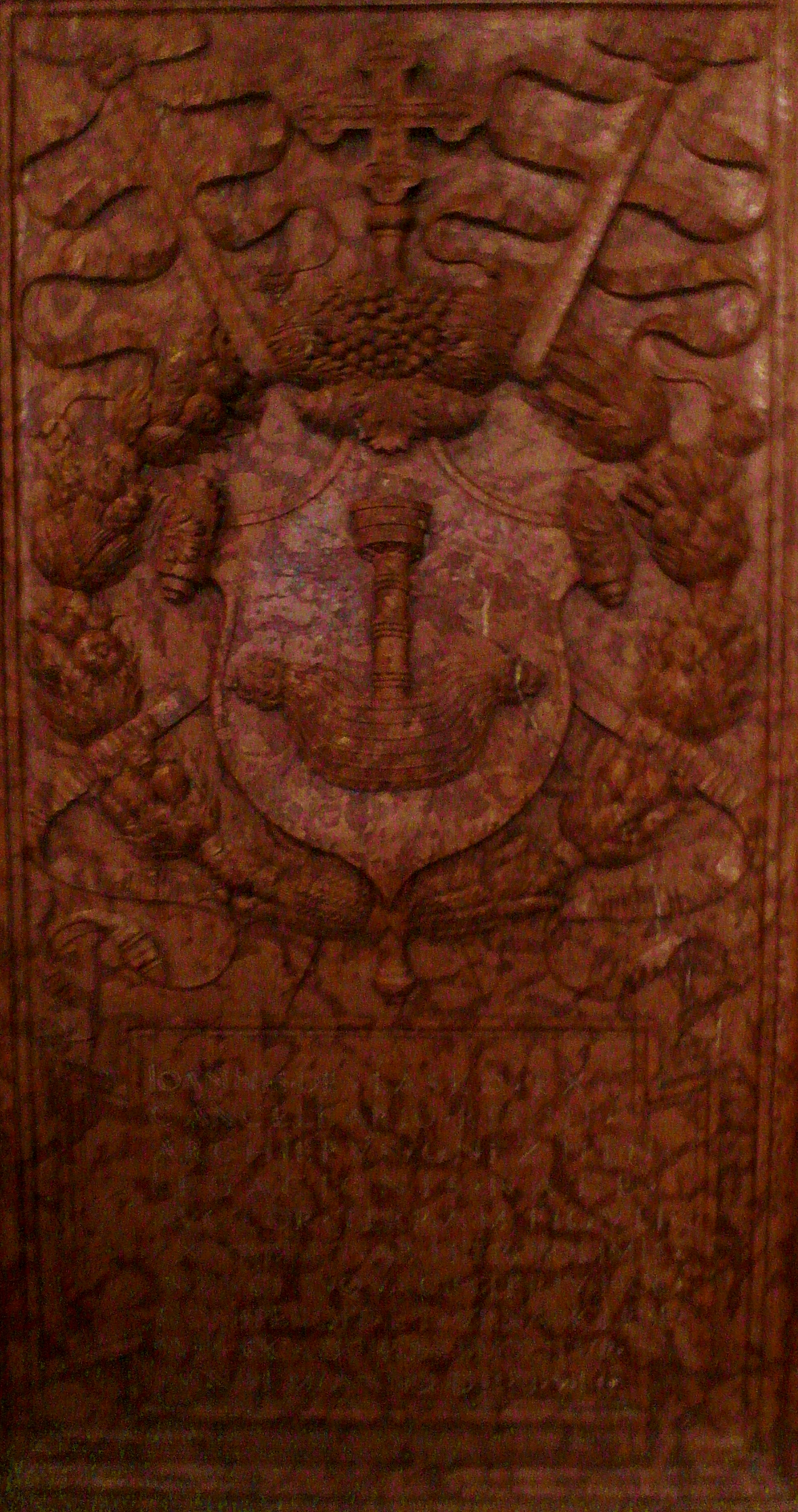 Tombstone of Jan Łaski by Joannes Fiorentinus, after 1516, Gniezno Cathedral